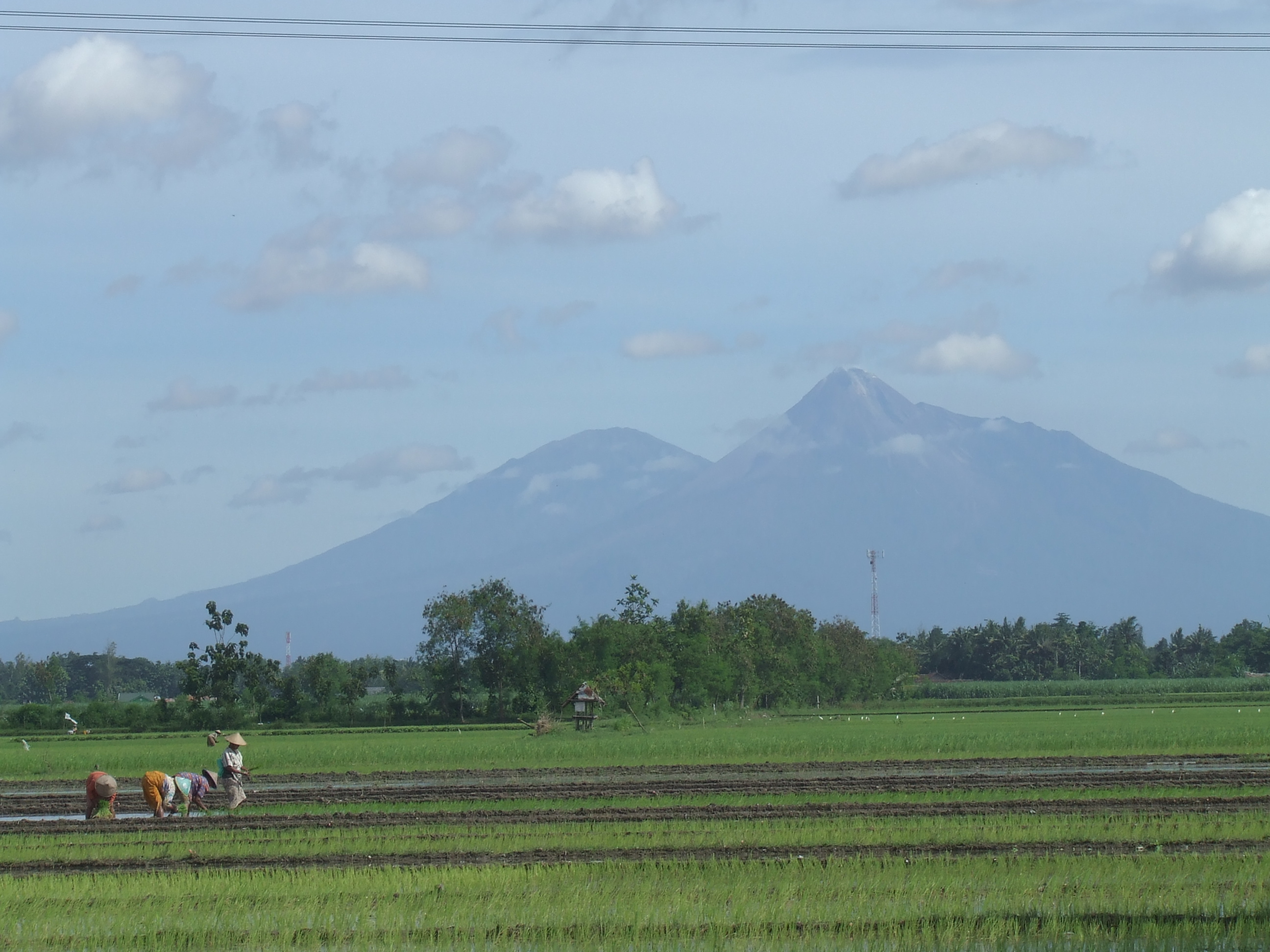 Looking at Mount Merbabu and Mount Merapi from Heaven's Army family rice paddy (sawah)